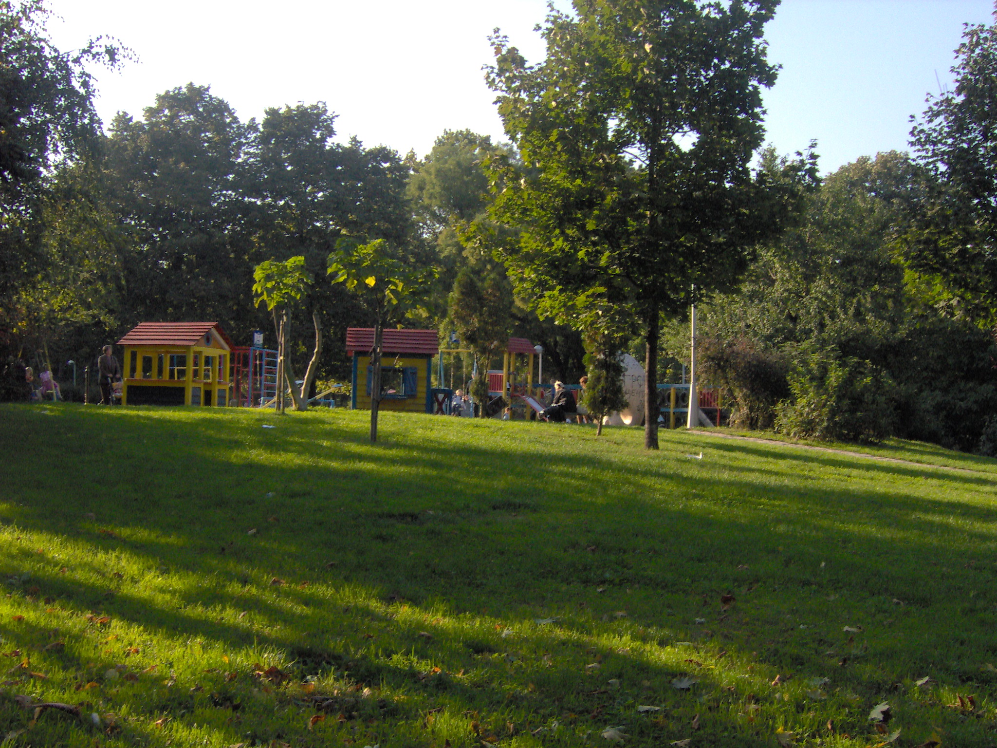 Children corner in Tašmajdan park Belgrade, Serbia